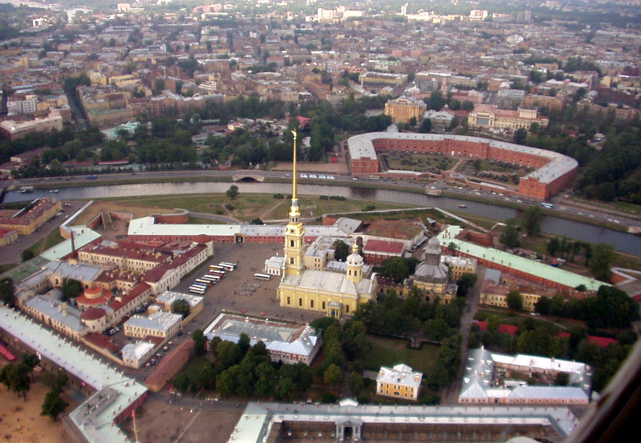 Aerial view of Peter and Paul Fortress, St. Petersburg